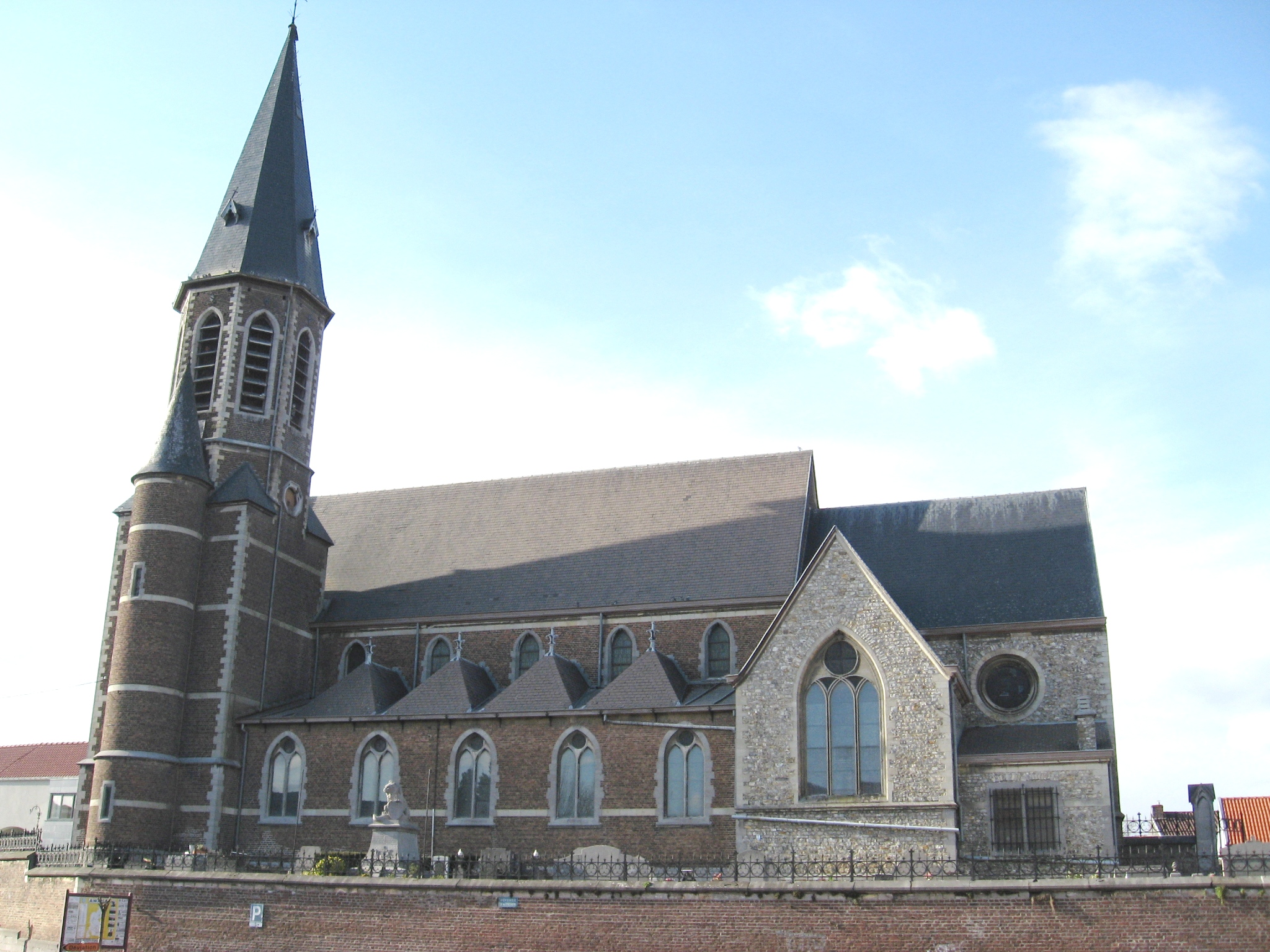 Church of Our Lady in Villers-l'Evêque, Awans, Liège, Belgium